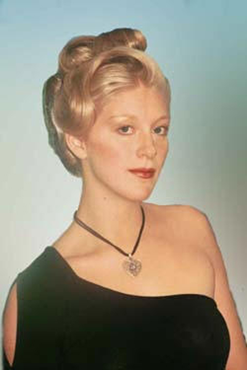 traditional updo hair style by style & photography Jonathan Van Voorhees